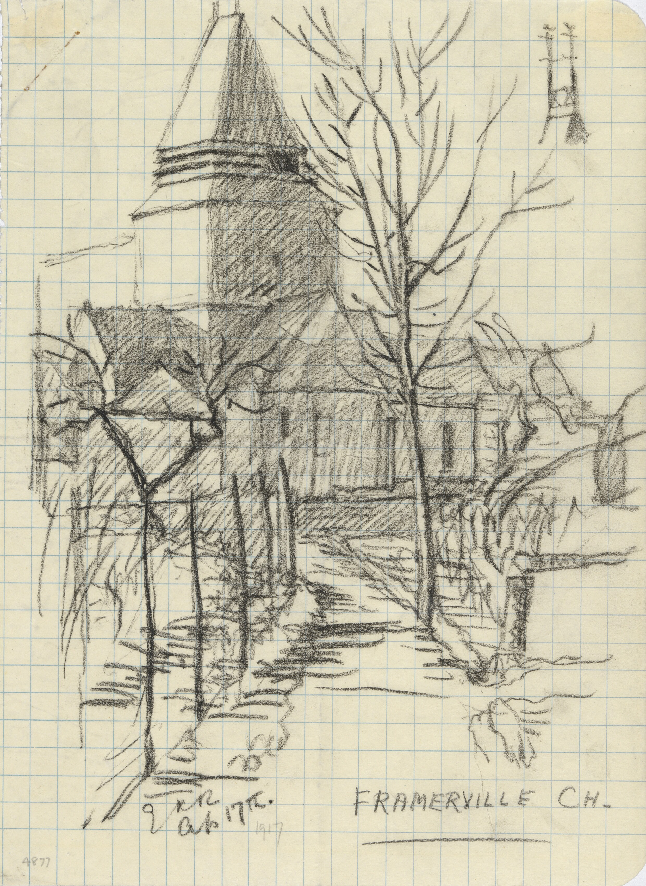 Framerville Church, April 17th 1917 image: a view up a narrow lane towards a church and surrounding buildings.